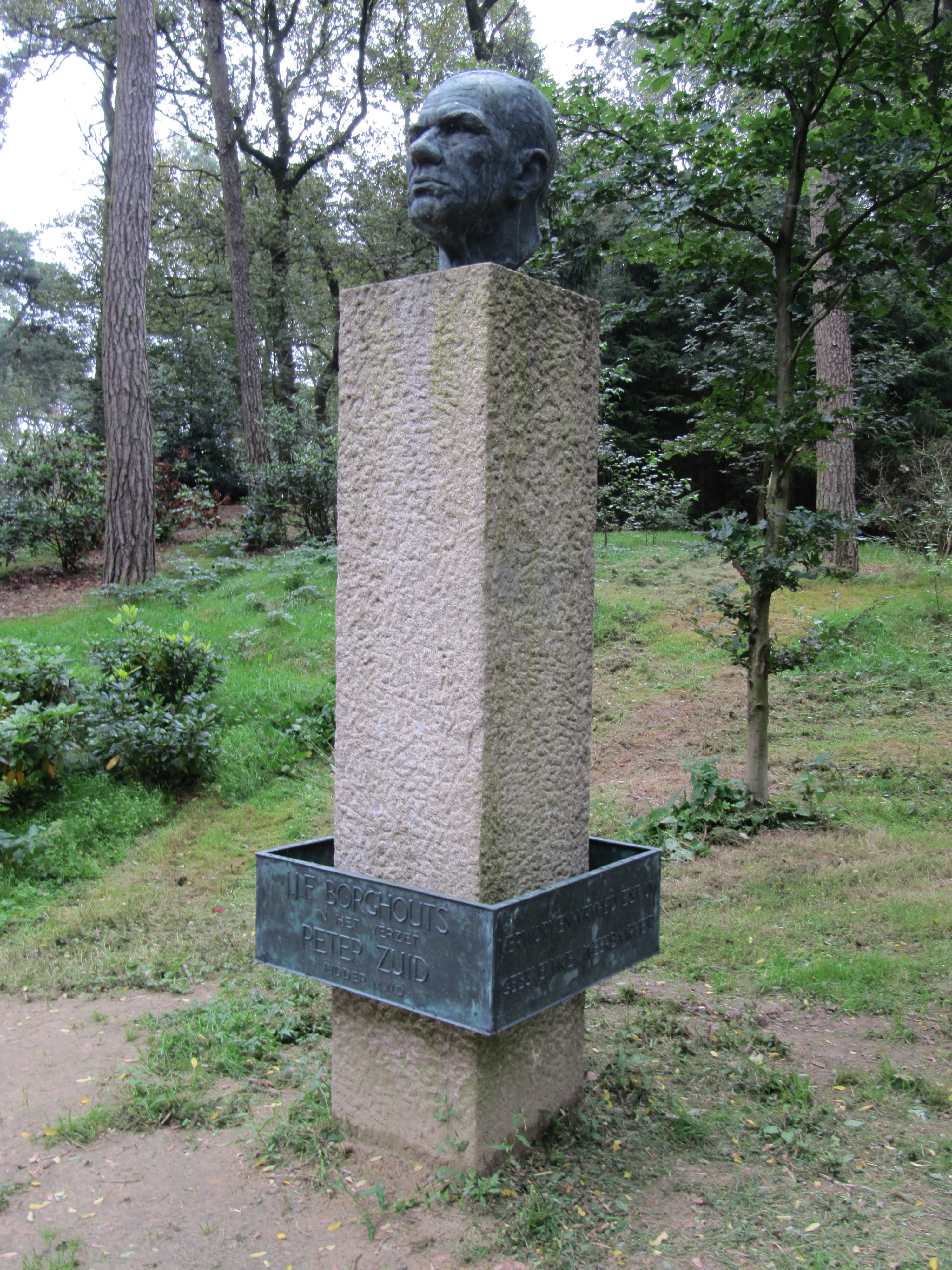 Bust of J.J.F. Borghouts (Peter Zuid) by Piet Killaars in Oorlogsmuseum Overloon (Overloon War Museum. Until 2013 it was called: Liberty Park) in Overloon, the Netherlands